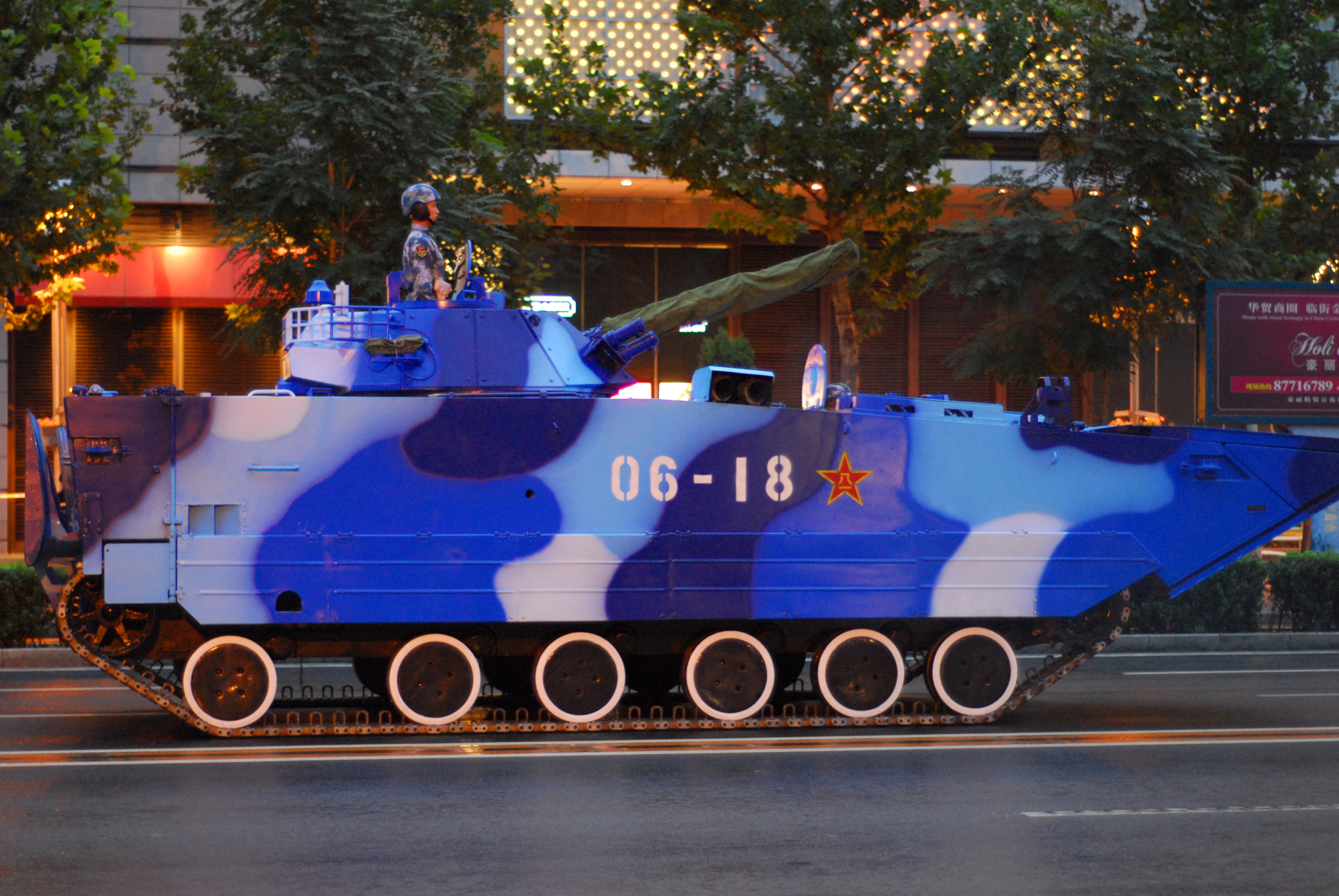 Photographer's note. Tanks in Beijing"Training exercise for the military parade scheduled for October 1 2009, to celebrate China's 60th Anniversary. The tanks rolled down Xidawang Lu in Chaoyang district in the east side of central Beijing past the luxurious shopping centre Shin Kong Place."